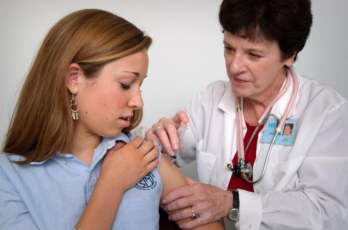 This 2006 image depicted an adolescent female in the process of receiving an intramuscular immunization in her left shoulder muscle, from a qualified nurse. The girl was assisting in the procedure by holding up her sleeve, while watching as the injection was administered. The nurse was using her free hand to stabilize the injection site. ID 9400